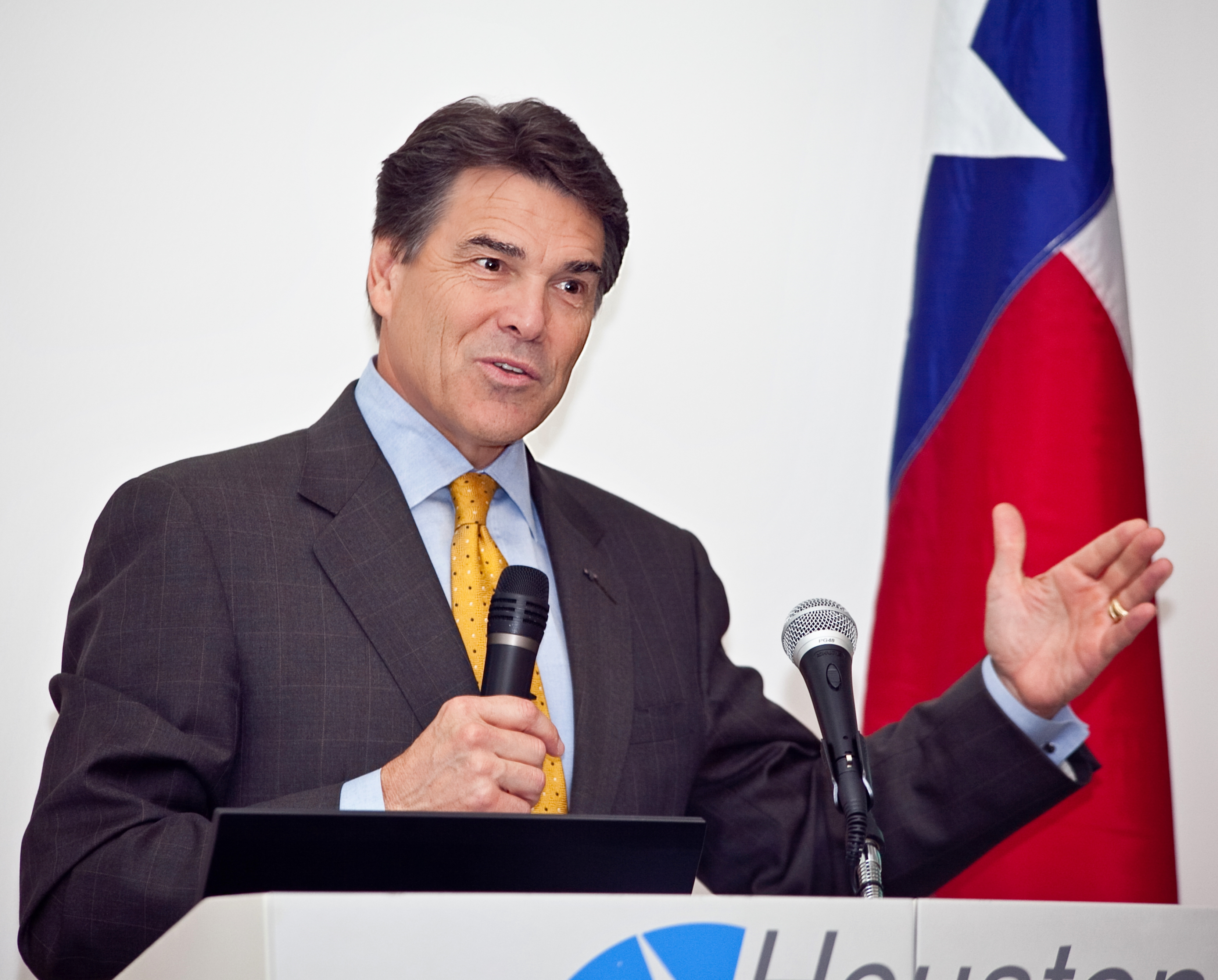 Midtown, Houston